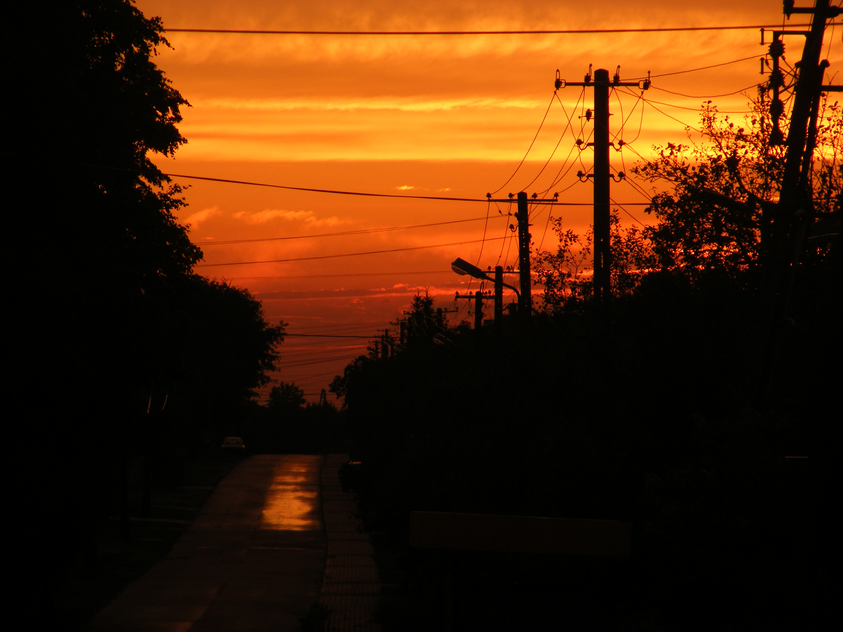 Ciebłowiece Duże, Poland Sunshine